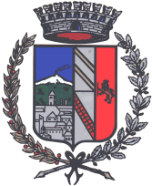 Coat of arms of the locality of Piedimonte Etneo in Sicily, Italy.